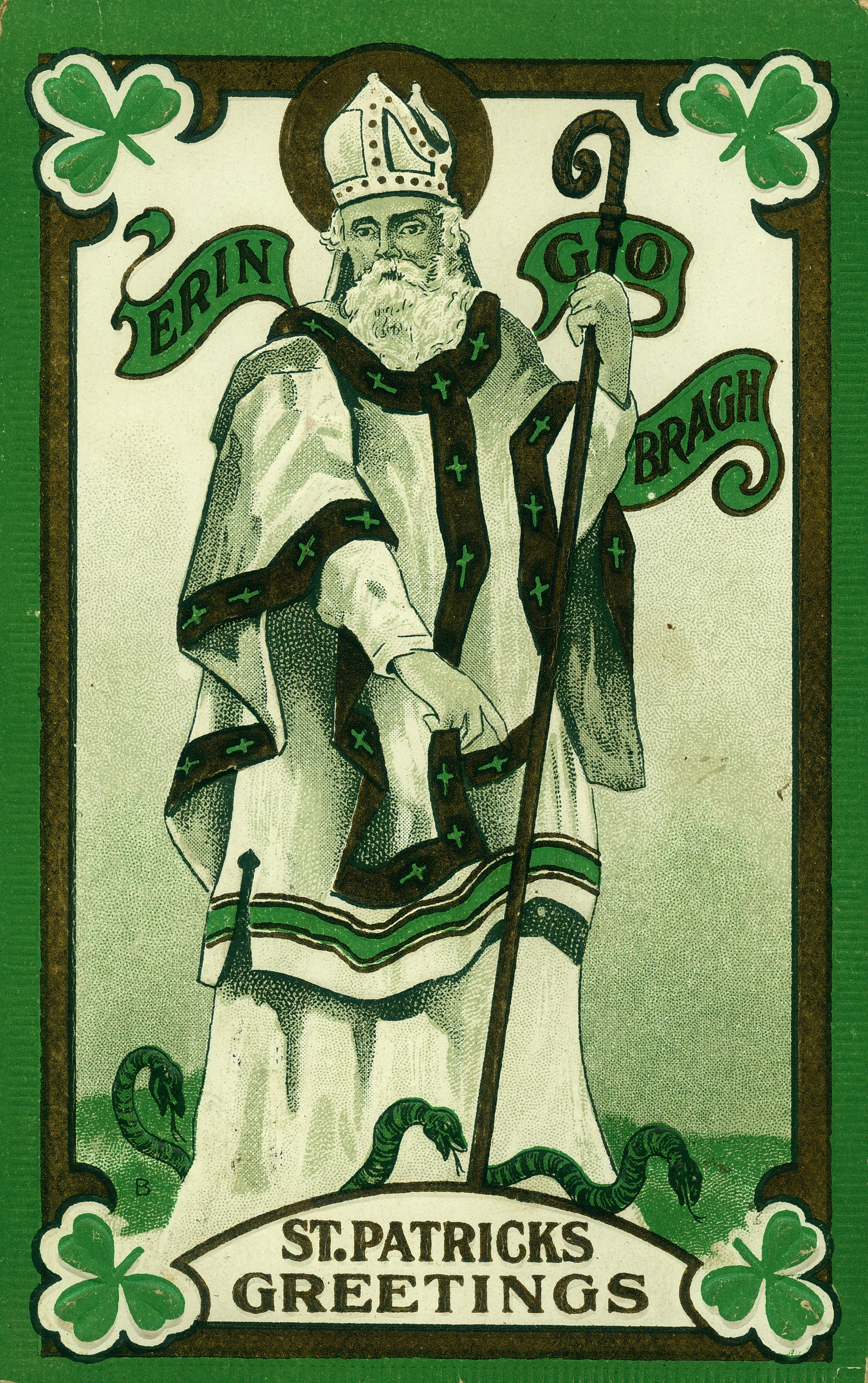 Title: "Erin Go Braugh. St. Patrick's Greetings."